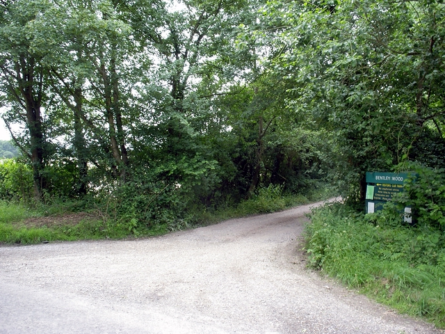 Entrance to Bentley Wood. Track leading to the public car park in Bentley Wood, off West Dean Road.